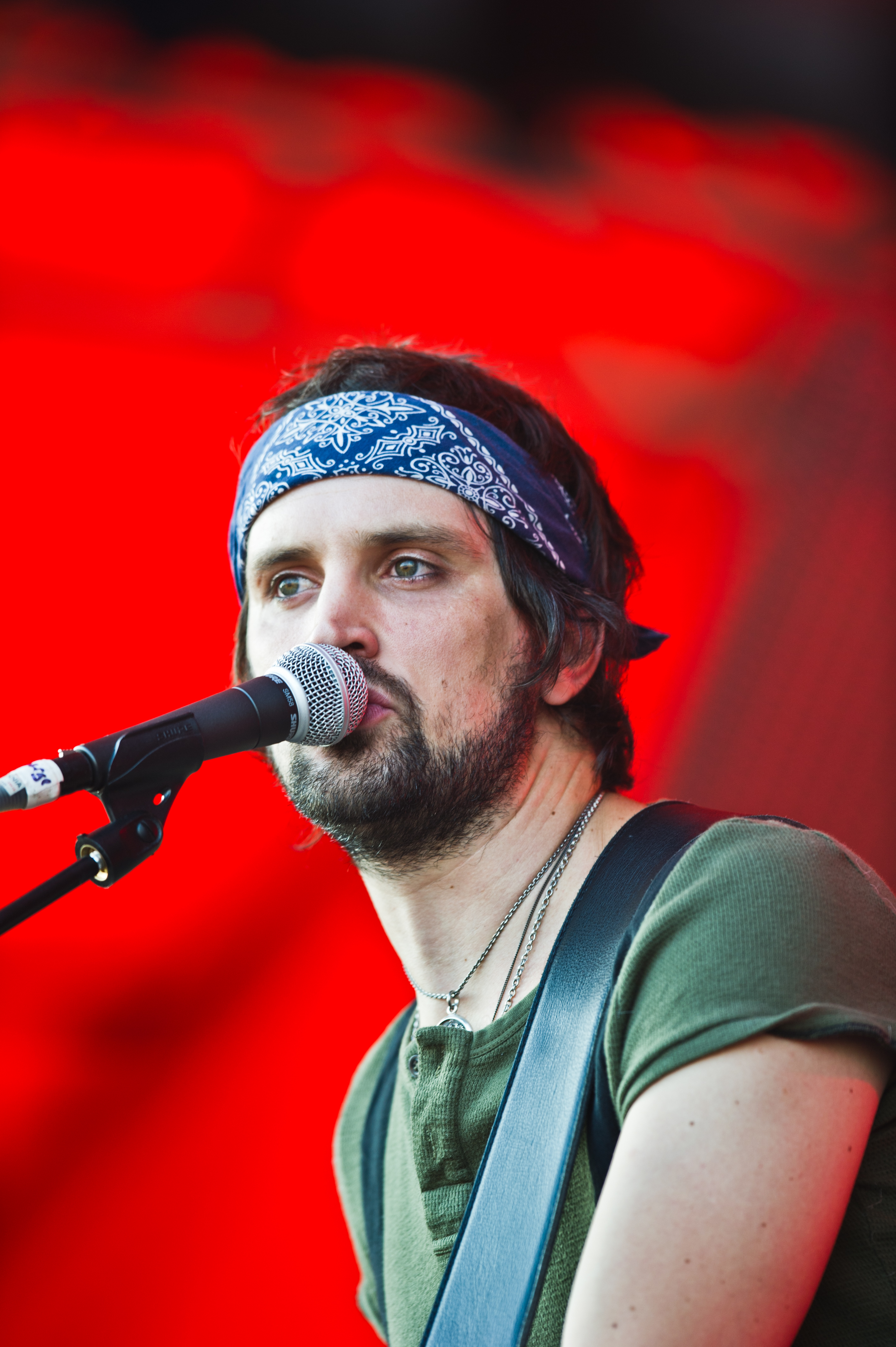 Sergio Pizzorno - Kasabian - Roskilde Festival 2010